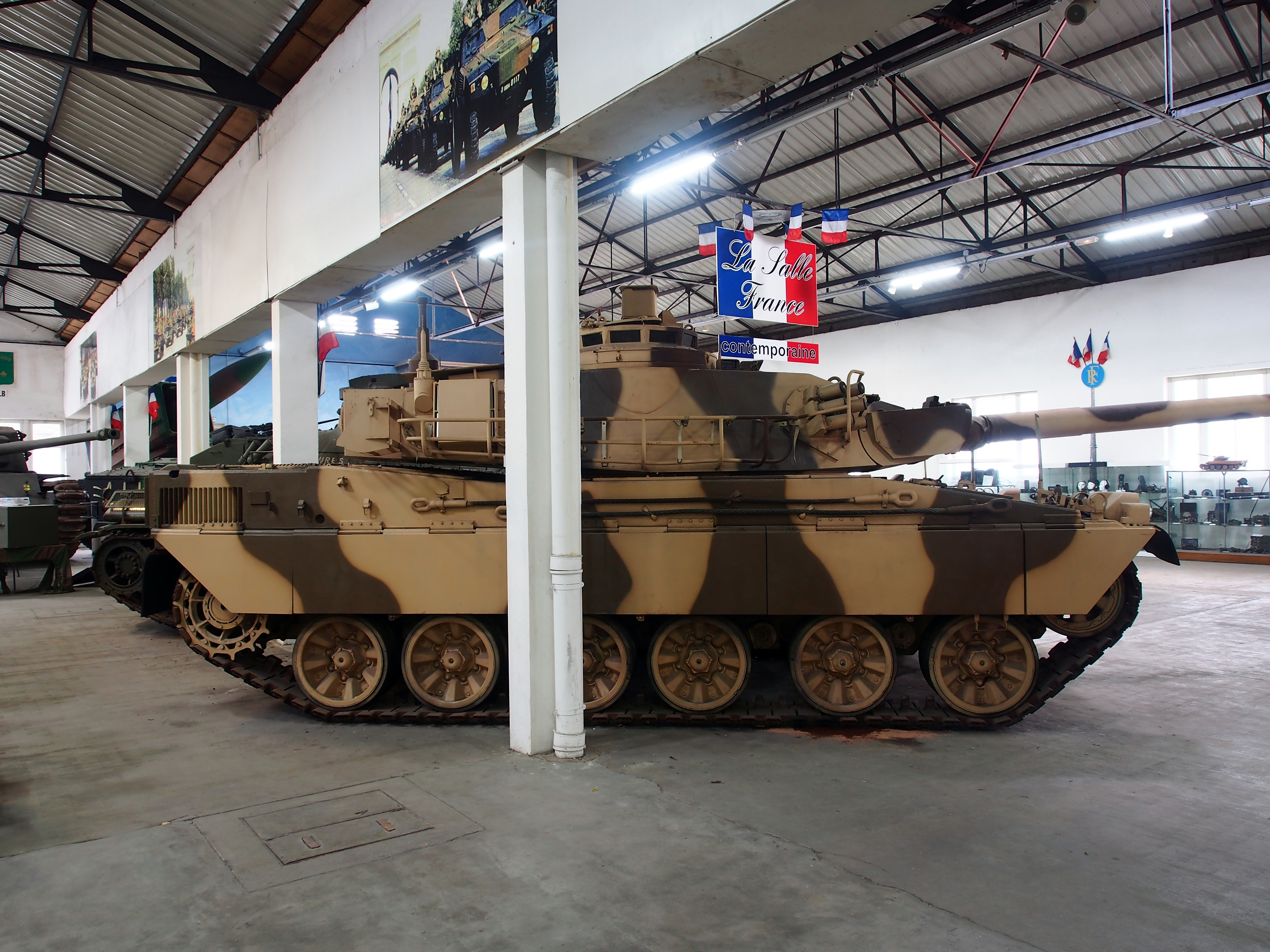 Photographed in the Musée des Blindés, France.